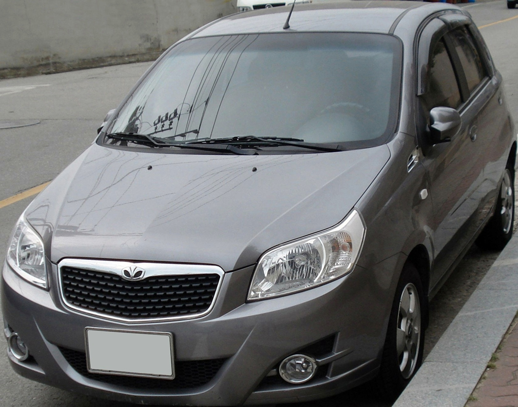 Daewoo Gentra X